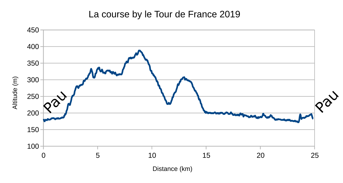 Profile of La course by Le Tour 2019